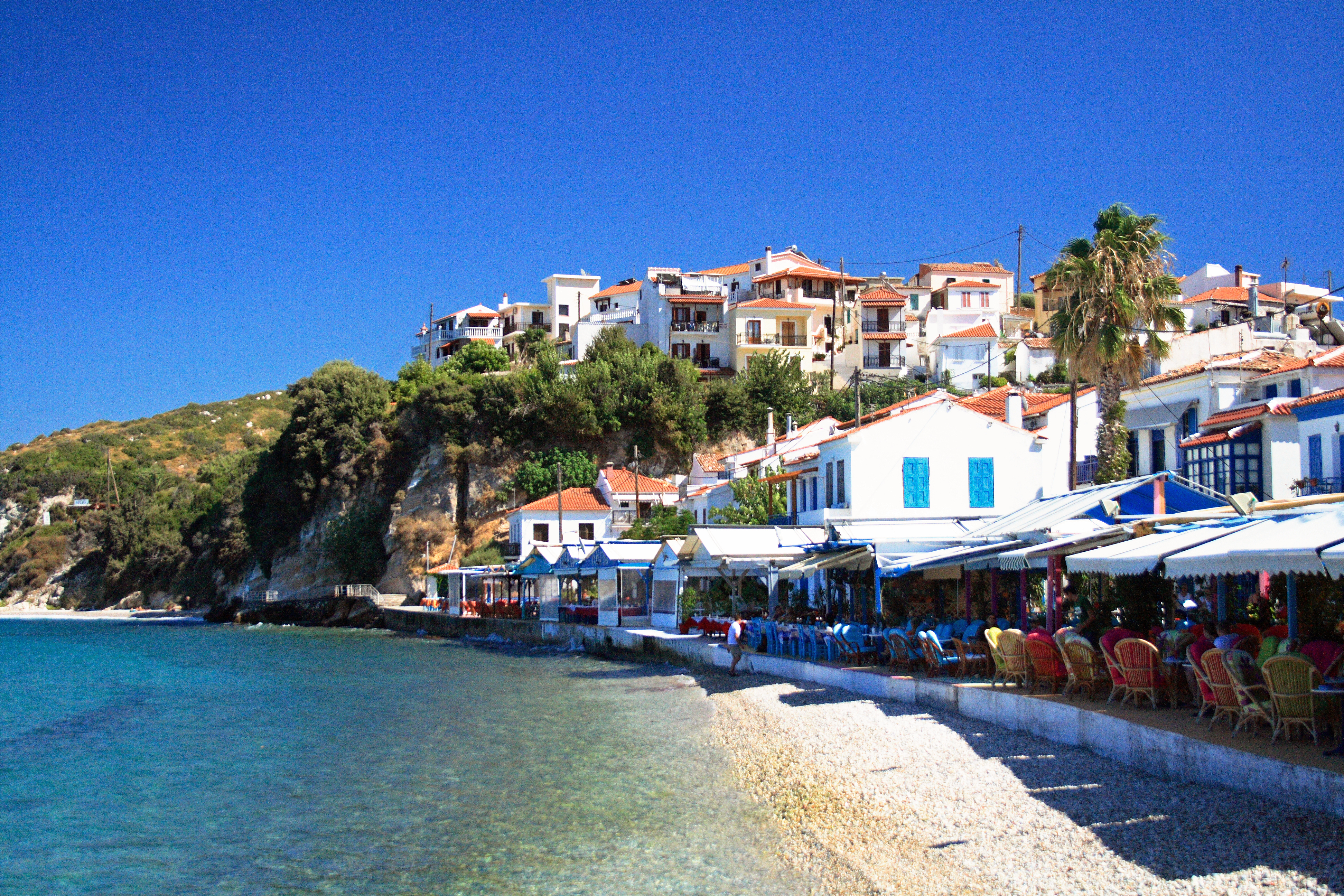 Habour of Kokkari